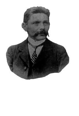 Picture of H.N. Ouwerling, 4th quarter 19th century